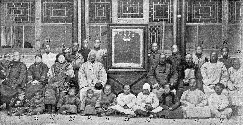 Albazinian refugees in Tianjin after the Boxer rising